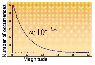 The Gutenberg-Richter law